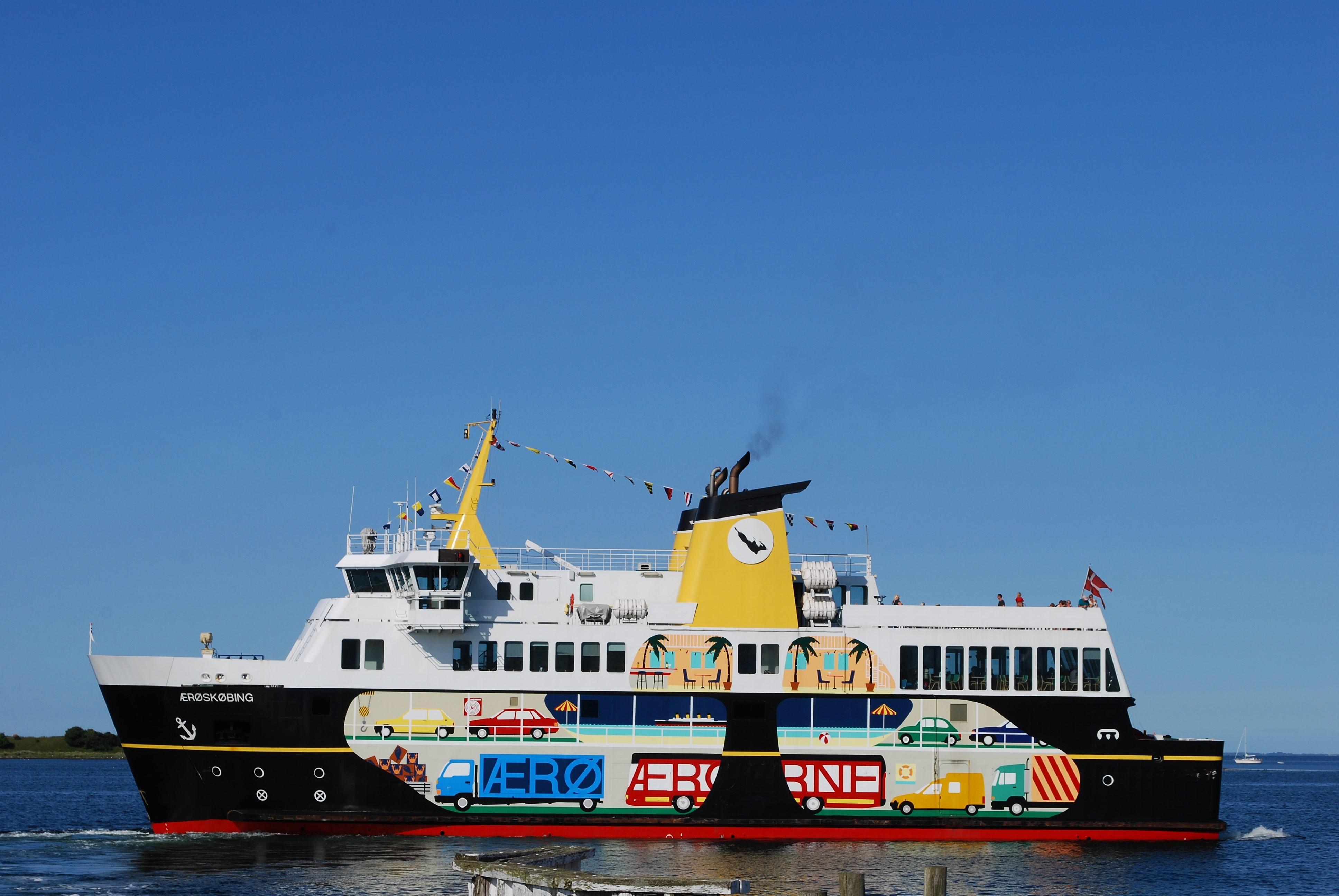 (Læs her om sitenotice) M/F Ærøskøbing, Ærøskøbing, Denmark